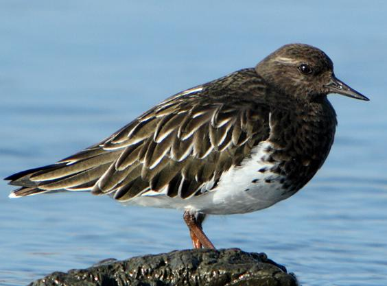 Black Turnstone (Arenaria melanocephala) observed foraging in the rocks